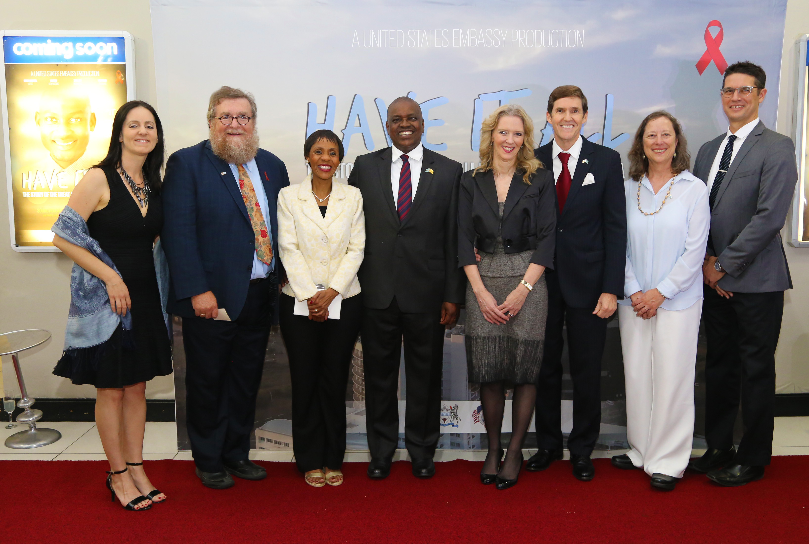 Neo Masisi (3rd from left) at the US Embassy Botswana